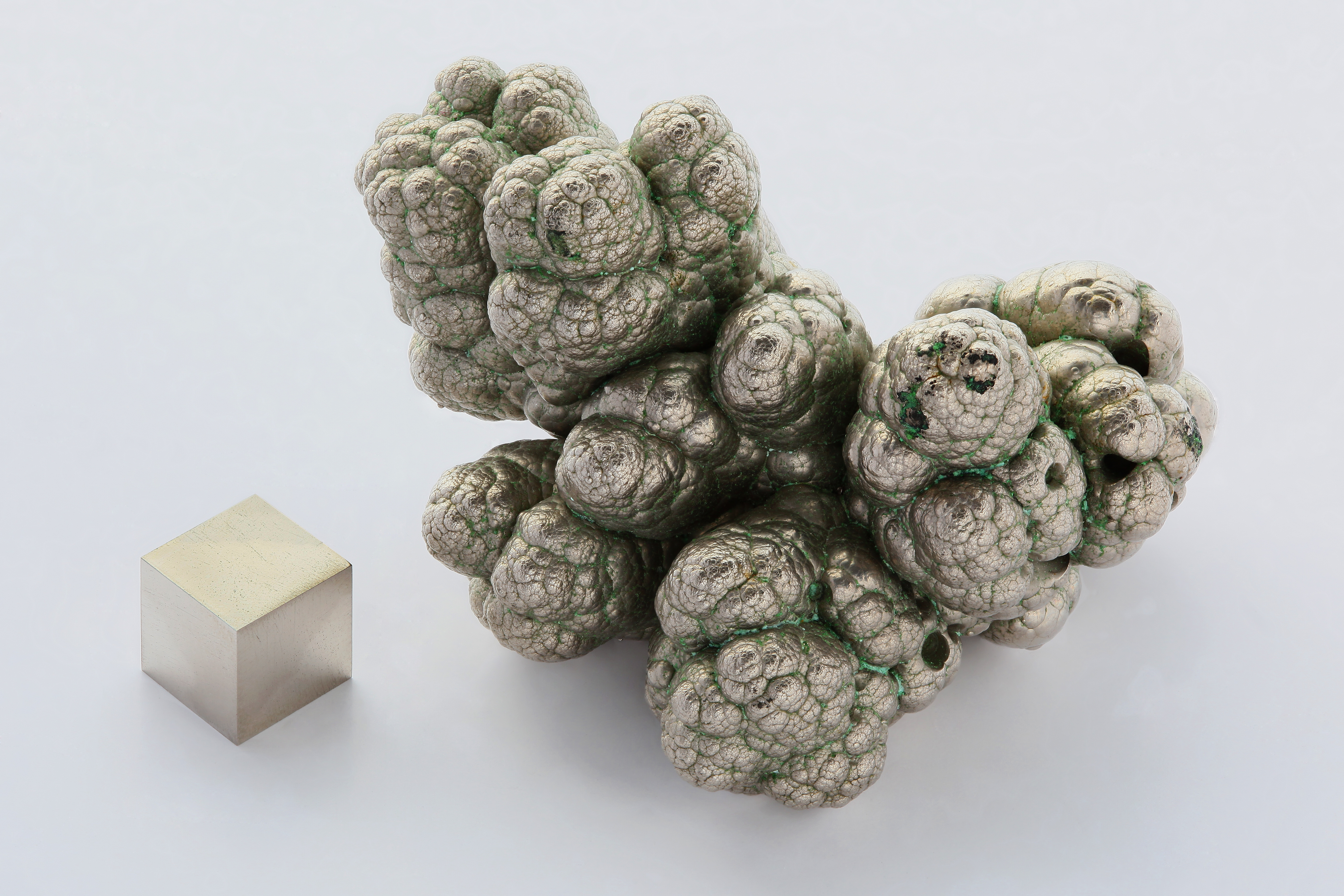 Electrolytically refined pure (99.9 %) nickel nodules, and a high purity (99.99 % = 4N) 1 cm3 nickel cube for comparison. Crystallized nickel-electrolyte salts (green) can be seen in the pores of the nodules.